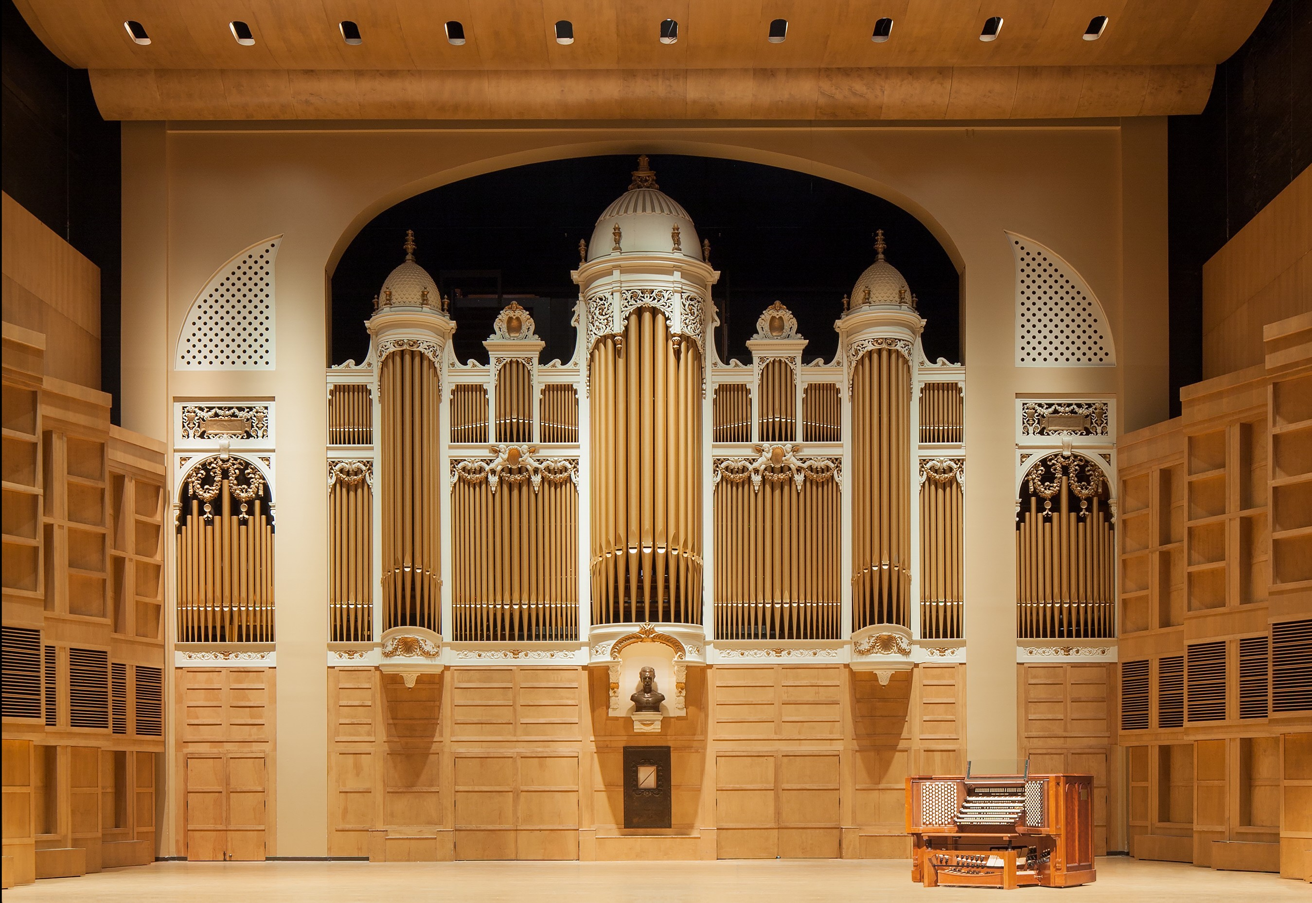 The famed Kotzschmar Organ at Merrill Auditorium, Portland, Maine, in October, 2014